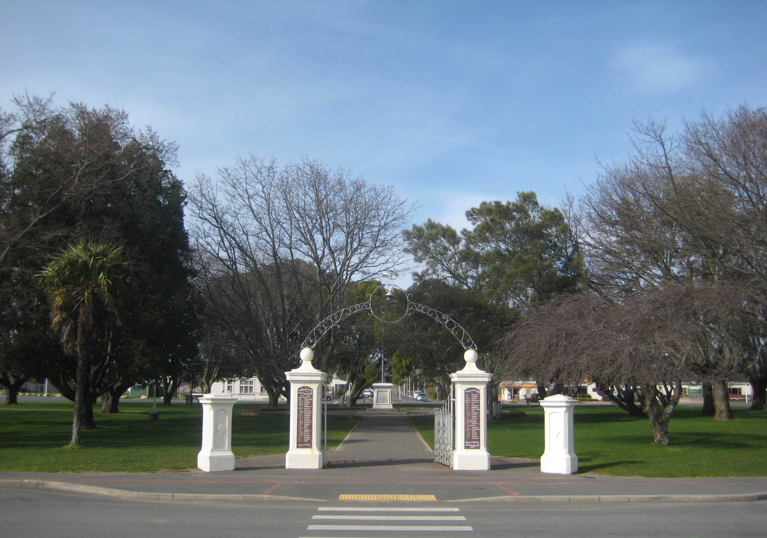 Martinborough's memorial square on 12 August 2009.